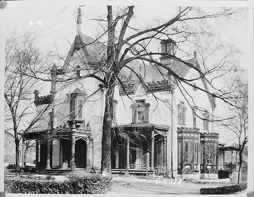 Photograph of front view of the Redd House, Columbus, Muscogee County, Georgia. Original photo by Don Johnson June, later copied by L. D. Andrew, Historic American Buildings Survey, Library of Congress, Washington, D. C. Retouched by MarmadukePercy